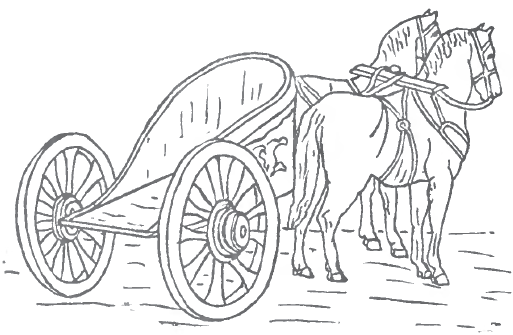 Punic war chariot, as printed in Theodore Ayrault Dodge's A HISTORY OF THE ART OF WAR AMONG THE CARTHAGINIANS AND ROMANS DOWN TO THE BATTLE OF PYDNA, 168 B. C., WITH A DETAILED ACCOUNT OF THE SECOND PUNIC WAR Houghton Mifflin Company, Boston & New York (1891). Hand scanned.